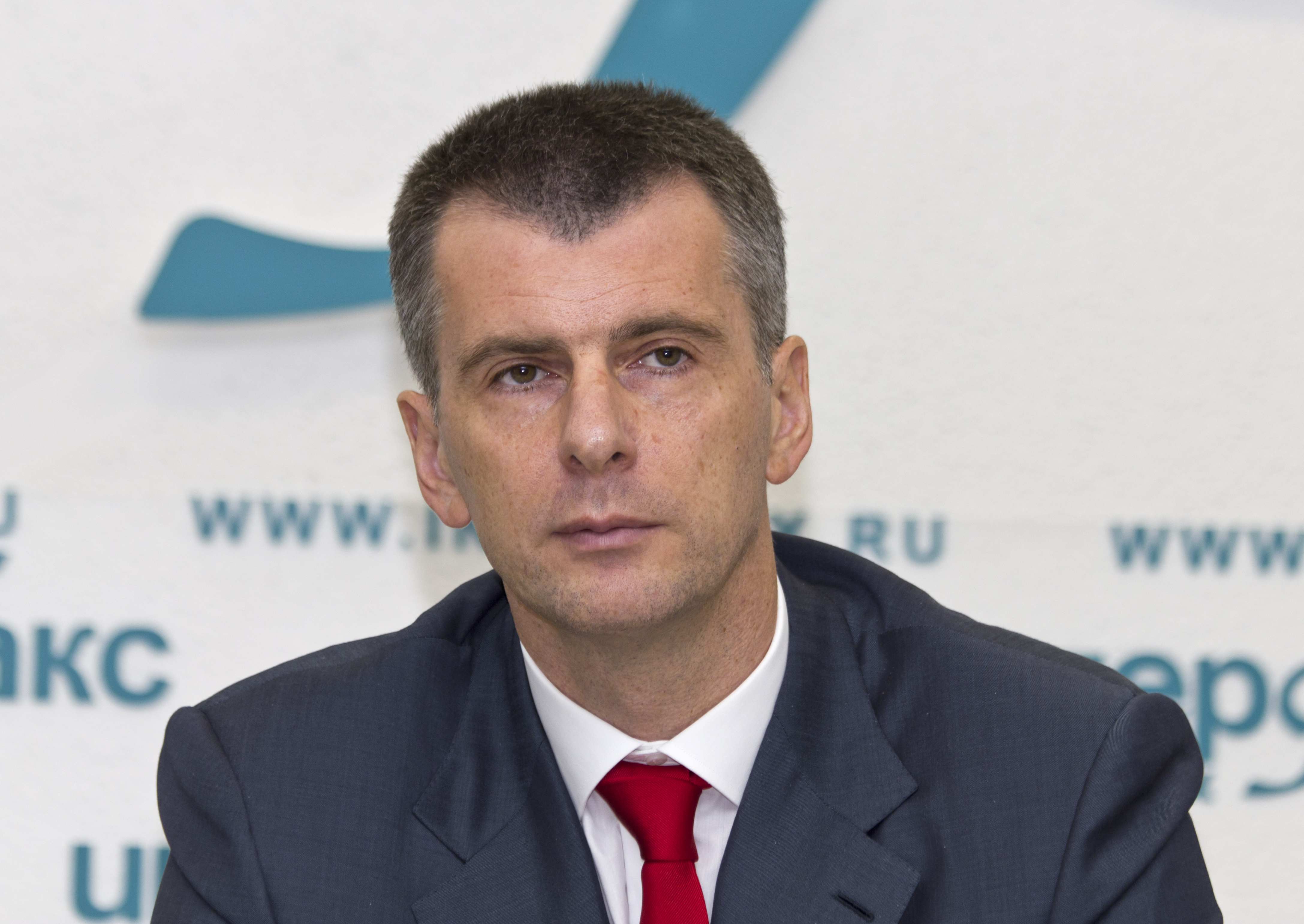 Mikhail Prokhorov, Russian politician. Taken at Press center of Interfax, Moscow.